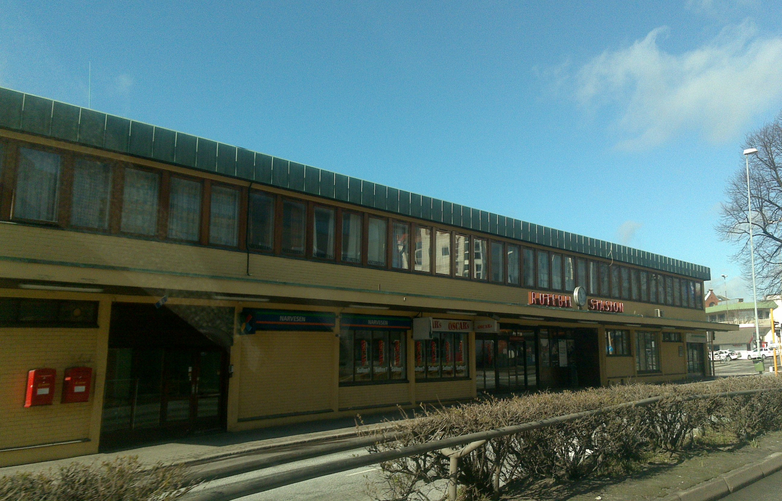 Kristiansand Rutebilstasjon, a bus station in Kristiansand, Norway